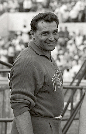 Adolfo Consolini (?), 1960 Olympics